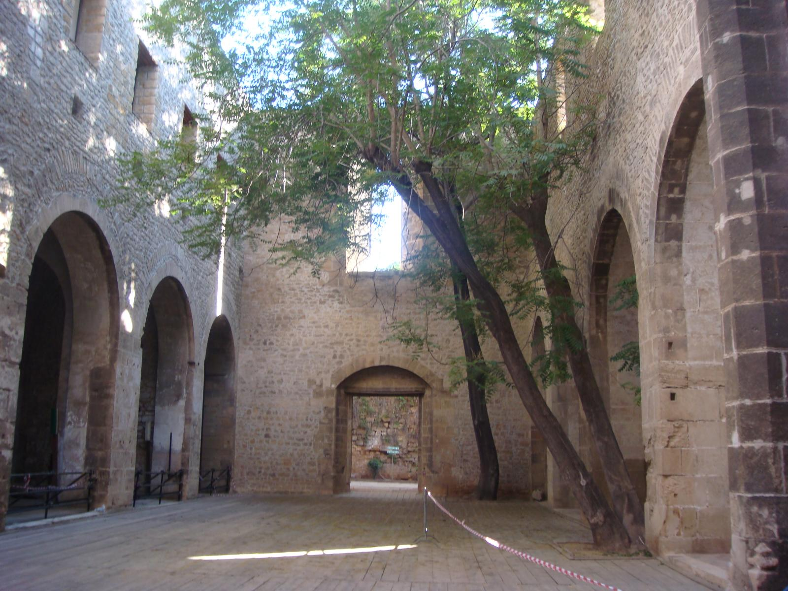 Interior of Lo Spasimo